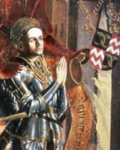 Florian Waldauf Ritter von Waldenstein (* ca. 1450; † 1510), Austrian knight in the services of Emperor Maximilian I. Detail from a larger painting.